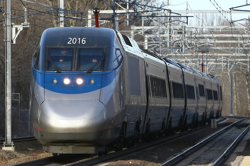 Amtrak Acela Train 2173, led by powercar 2016, speeds through Old Saybrook, CT on its way to Washington DC